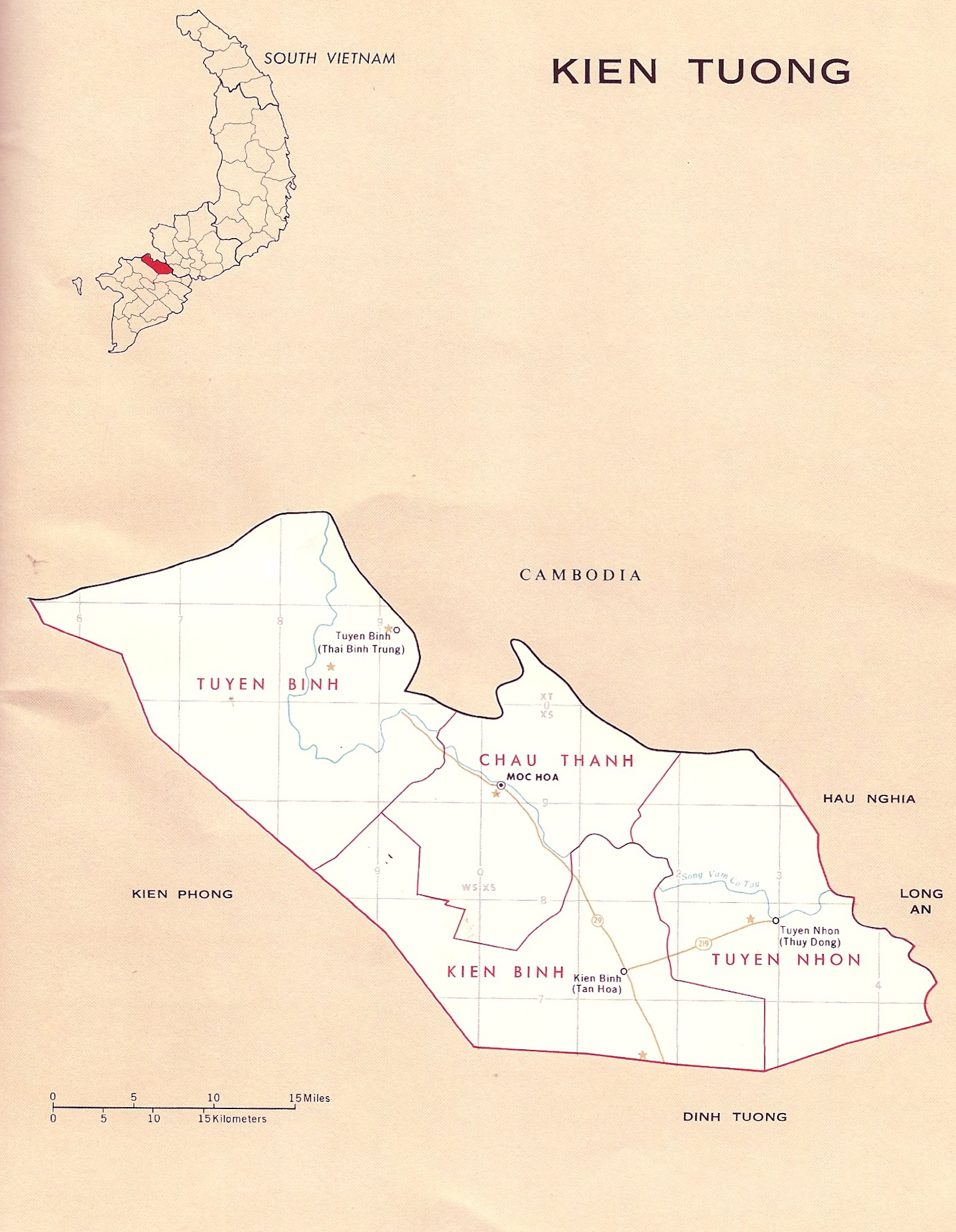 Kien-tuong Province